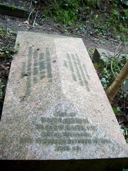 Gronow Davis at Arnos Vale Cemetery, Bristol.